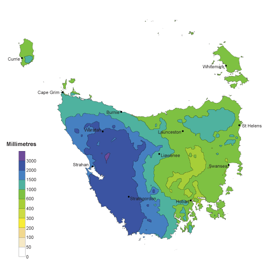 A map of the mean annual rainfall for Tasmania, Australia. Calculated over a 30 year period from 1961 to 1990. Image sourced from Australian Bureau of Meteorology.